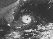 Typhoon Cora, 4th September 1966.